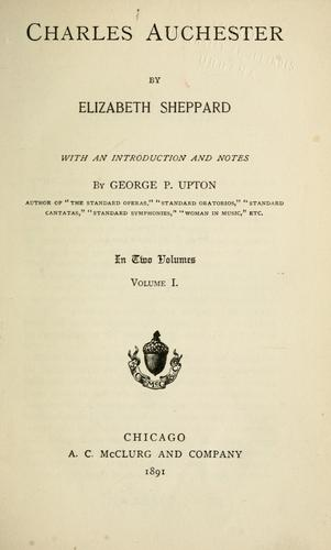 Charles Auchester by Elizabeth Sheppard 1891 publication